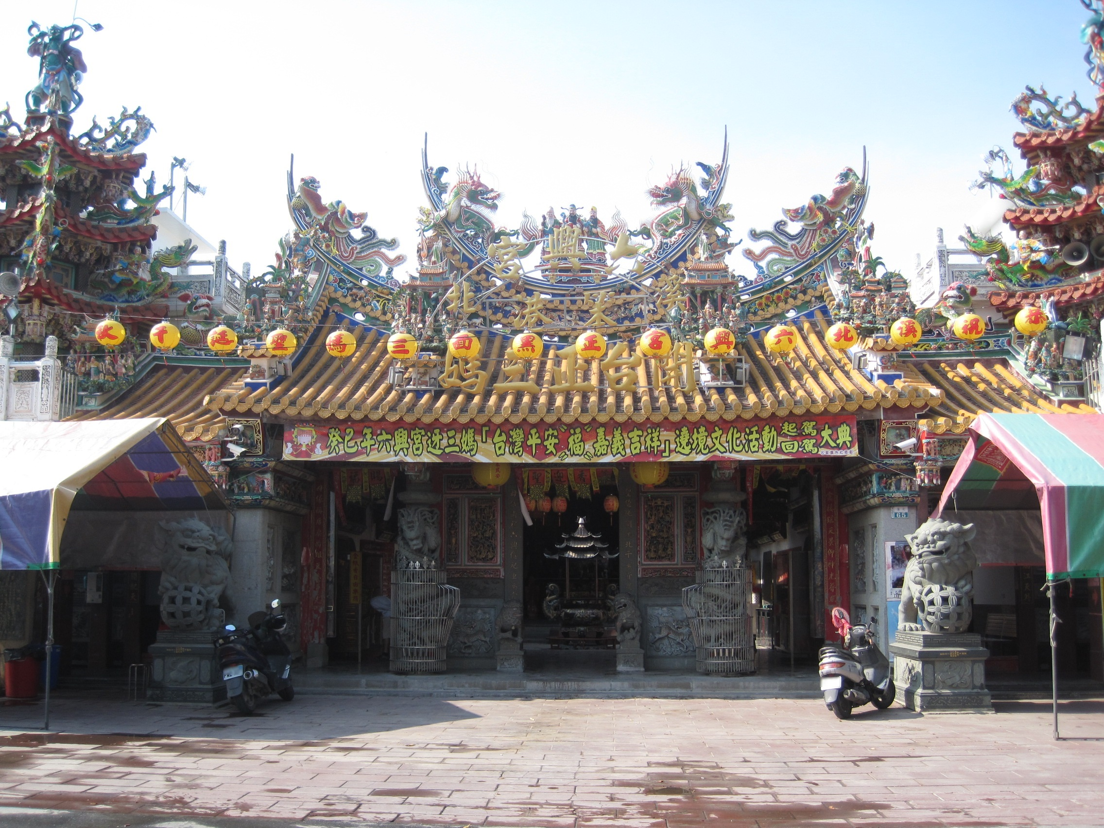 Liousing Temple